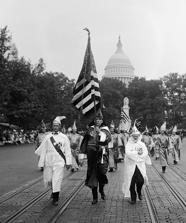 Ku Klux Klan parade, 9/13/26